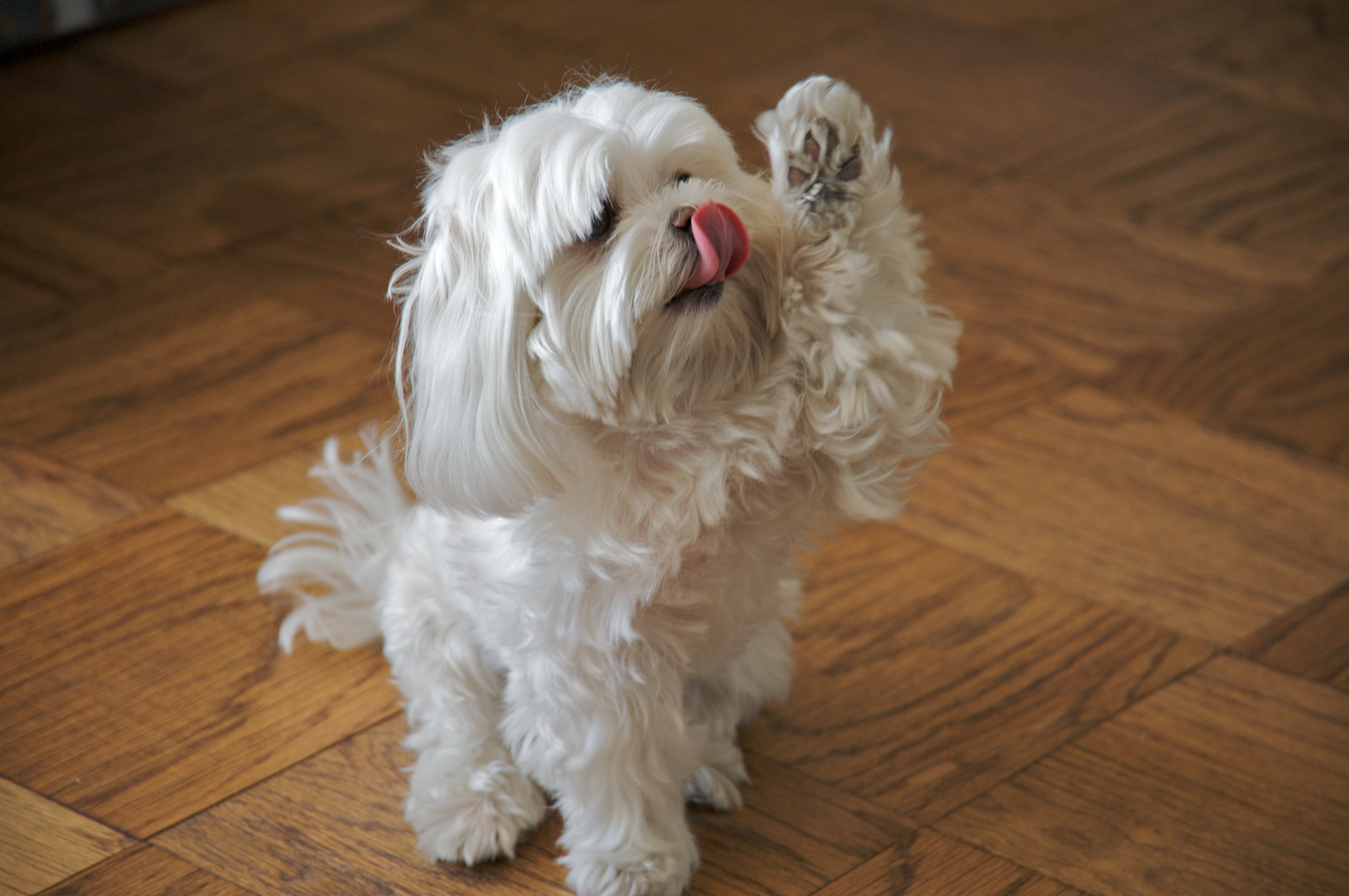 Okay, I've done that stupid trick of sticking my paw up in the air. Now where's that tasty treat you promised me?